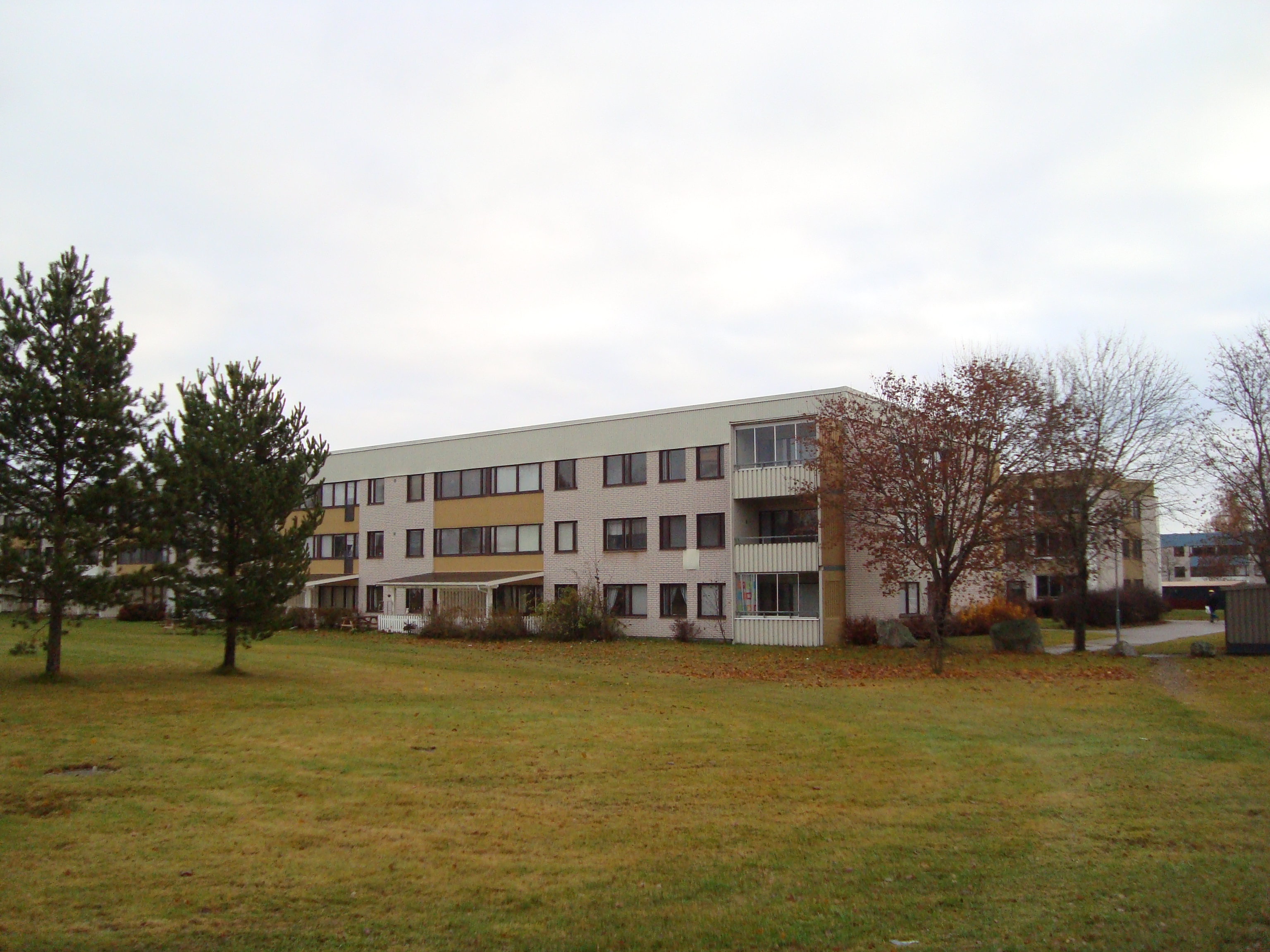 Apartment buildings in Tjärna Ängar, Borlänge, Sweden